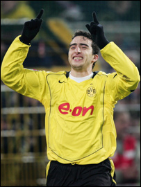 madouni buteur